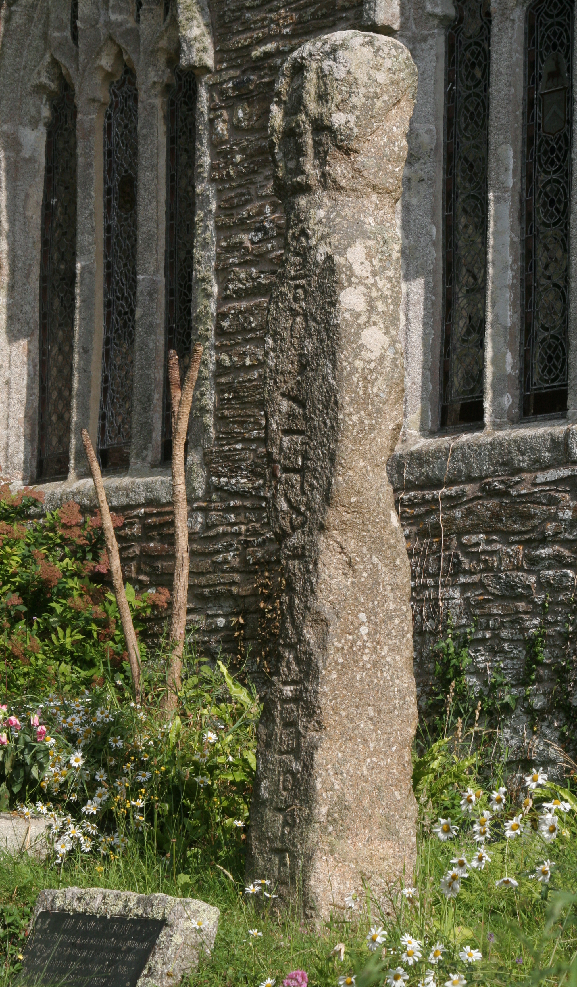 The Ignioc stone, a medieval cross above one (or two) earlier Latin inscriptions in the churchyard of St Clement's near Truro